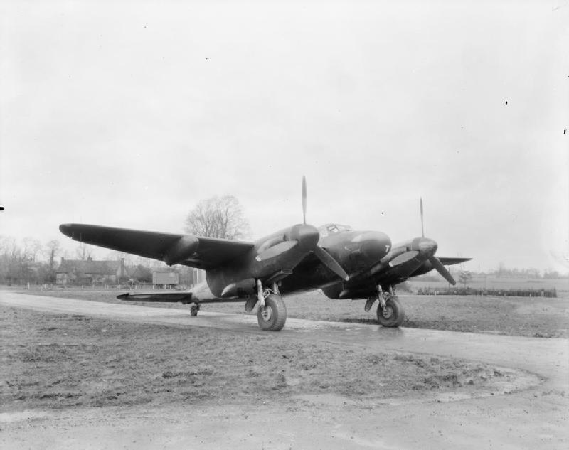 Mosquito NF Mark XIII, HK382 ‘RO-T’, of No. 29 Squadron RAF, at Hunsdon, Hertfordshire. This view shows the ‘thimble’ nose radome in which AI Mark VIII centimetric radar is fitted. This is typical of late-war night fighter service in the RAF.